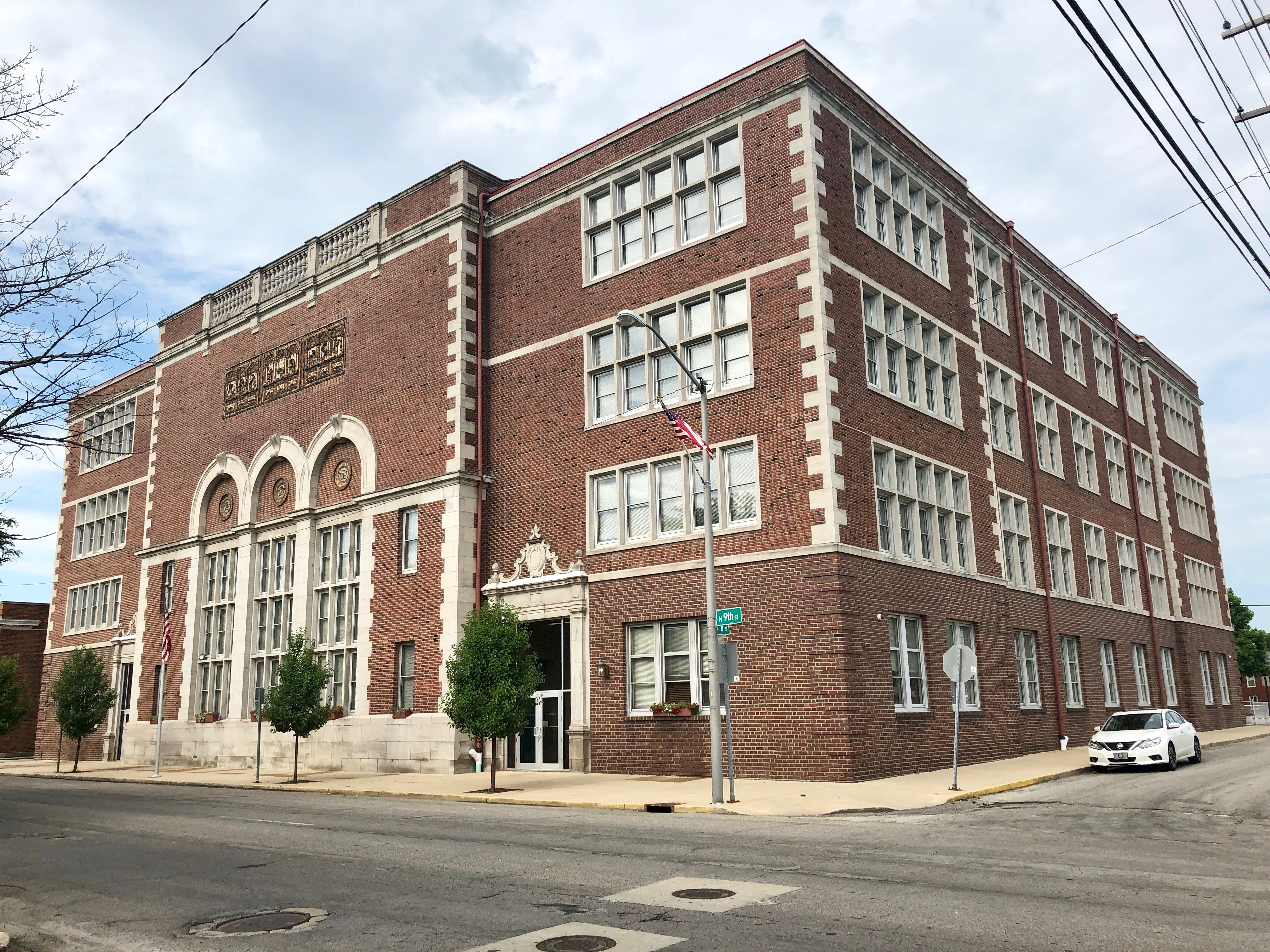 9th Street, Richmond, IN